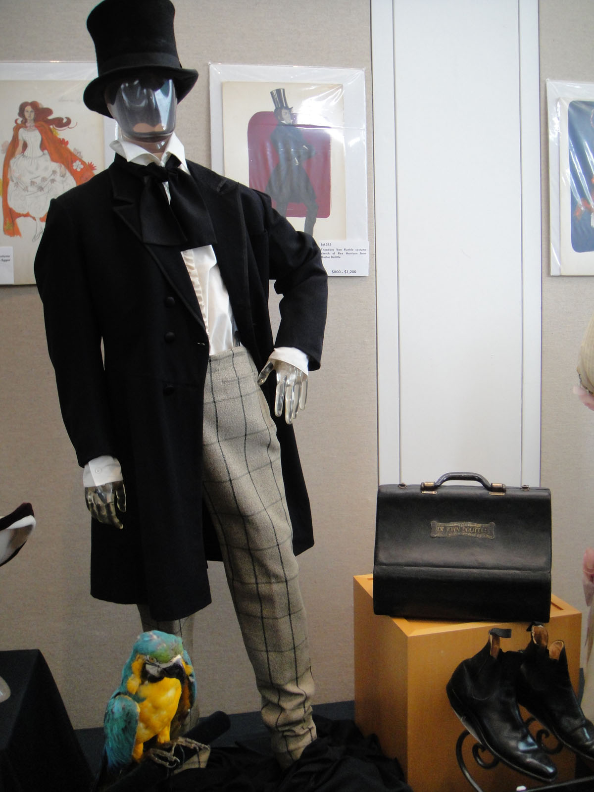 Rex Harrison "Dr John Dolittle" signature costume with top hat, shoes, prop parrot, and doctor bag from Doctor Dolittle (1967) at the Debbie Reynolds Auction Breaks Up Historic Hollywood Collection (The Paley Center for Media in Beverly Hills, Los Angeles, CA, USA). Costume design by Ray Aghayan.